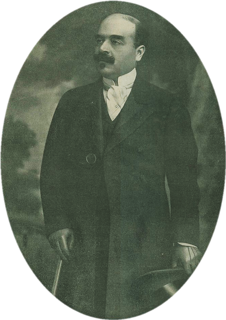 Luís Pinto de Soveral, Marquês de Soveral (1851-1922), portuguese diplomat.